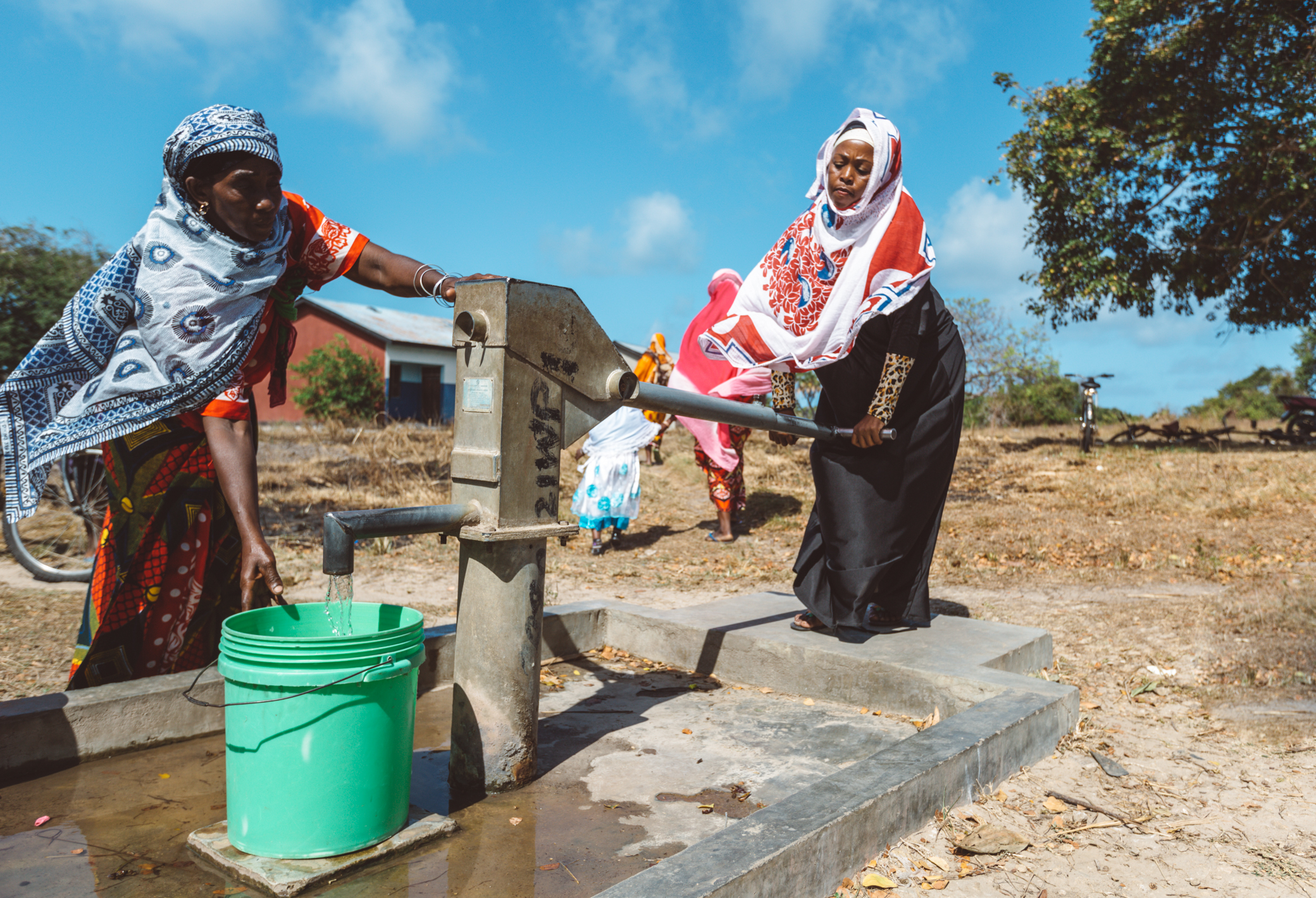 Shariffa has to go fetch pure water 2km from her house and carry it on her head and walk 2km back. This is an image of "African people at work" from Tanzania